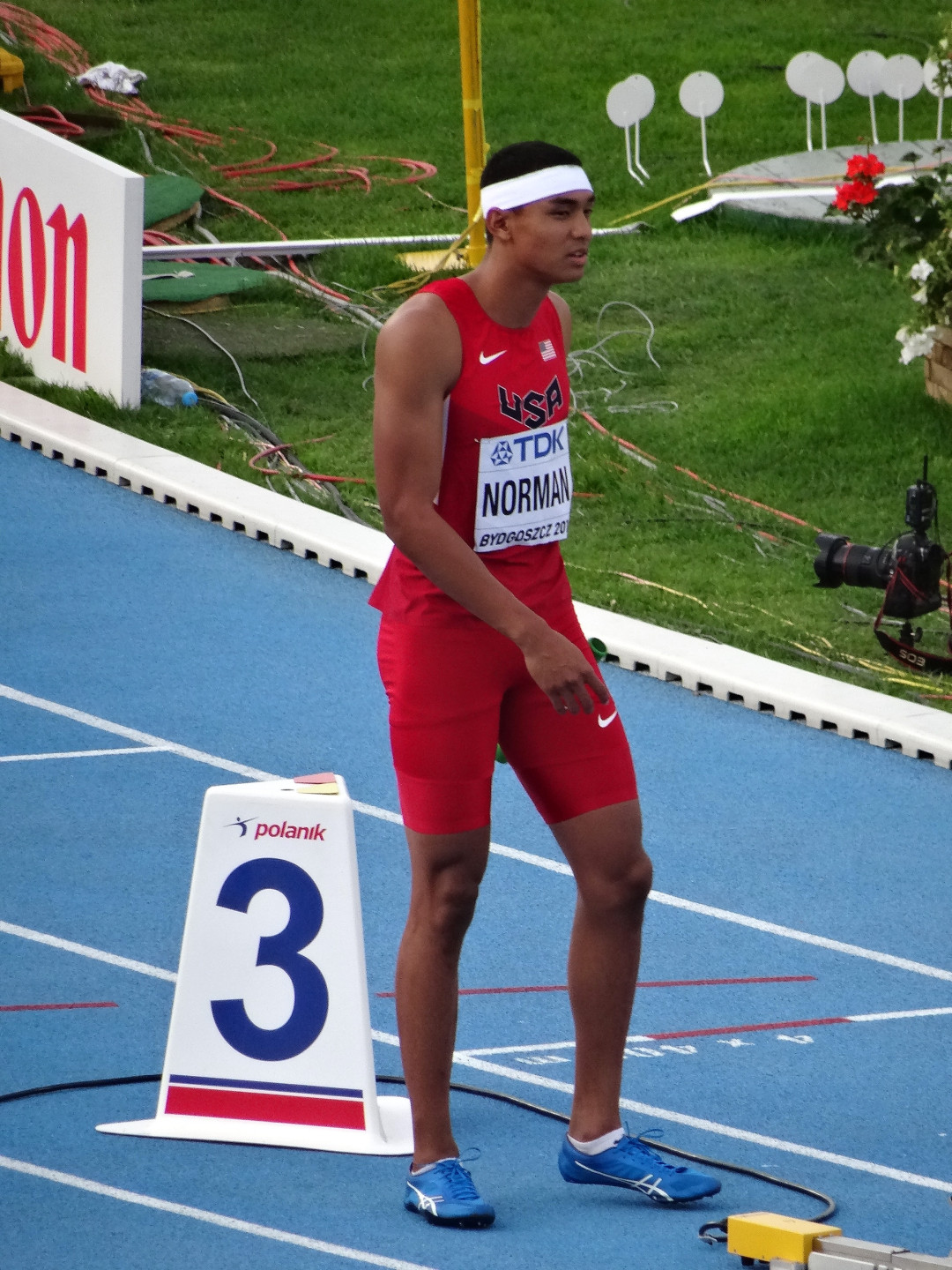 2016 IAAF World U20 Championships in Bydgoszcz, 4x100m relay men final